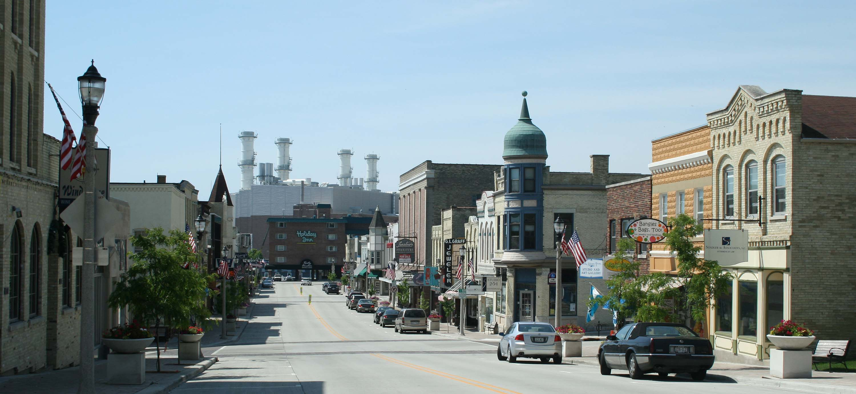 Port Washington Downtown Historic District (Wisconsin). Franklin Street, looking south from the corner of Jackson Street. The Holiday Inn is at the far end, on Grand Ave., and the power plant is across the harbor behind it.